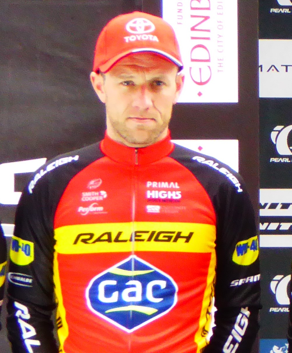 Evan Oliphant, pictured at Round 3 of the Pearl Izumi Tour Series in Edinburgh on 19 May 2016.